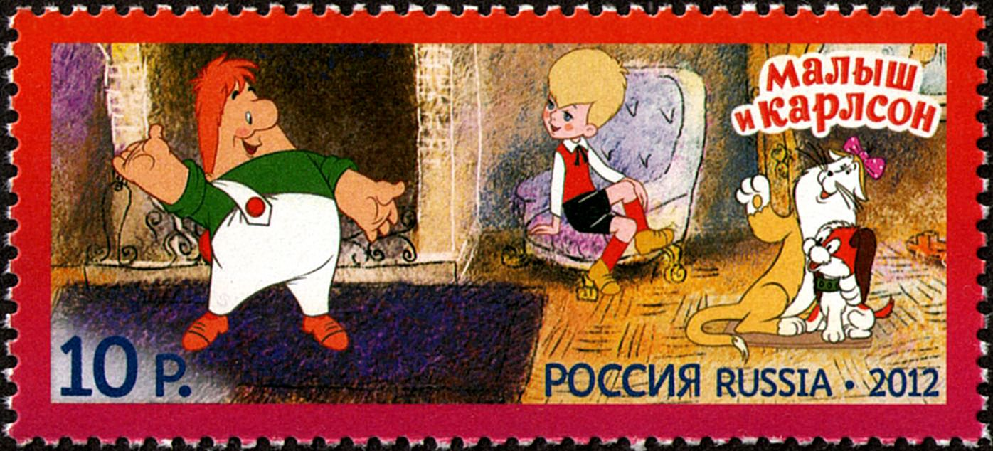 Soviet animated cartoons.Lillebror and Karlsson. 1968 (Lillebror and Karlsson), 1970 (Karlsson Flies Again). Soyuzmultfilm. Directed by Boris Stepantsev (1929—1983).The stamp of Russia, 10.00 rubles, 3 December 2012, PTC Marka Catalogue No 1654. Coated paper. Offset printing, multicoloured. Perforation: comb 12:12½. Size of the stamp: 58×26 mm. Print run: 200,000.